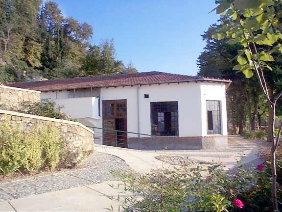 External view of the cordage and rope mill, image from the Open-air Water Museum, Edessa, Central Macedonia, Greece